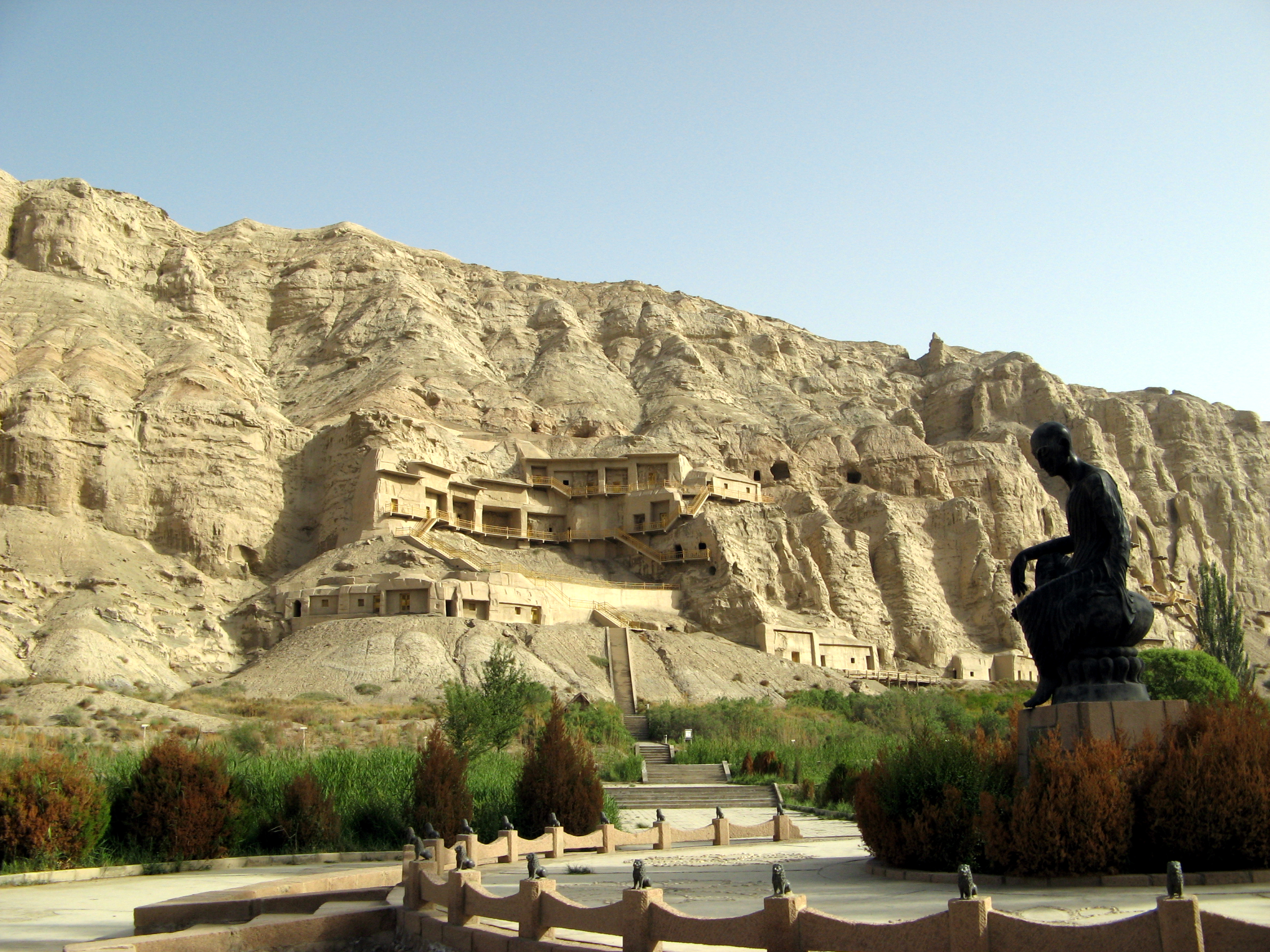 Thousand-Buddha Caves. Kizil, Xinjiang The Buddhist grottoes in Kizil date from about 300 AD -700 AD. Their early origin is a recent result that is based on carbon-14 dating. The caves display Indian/Gandharan and Iranian, rather than Chinese, styles in their artwork. Kizil's 200+ grottoes form the second-largest collection of cave-chapel art in the region, Dunhuang being the largest. Significant paint remains today (2007), although all Kizil's once-abundant clay images have by now been either destroyed or removed by a combination of erosion, flooding, and outsider interference with the site. A modern statue of Kumarajiva (344-414) appears at photo right. The great translator/monk was born in Kuqa, 70km (43mi) to the east.